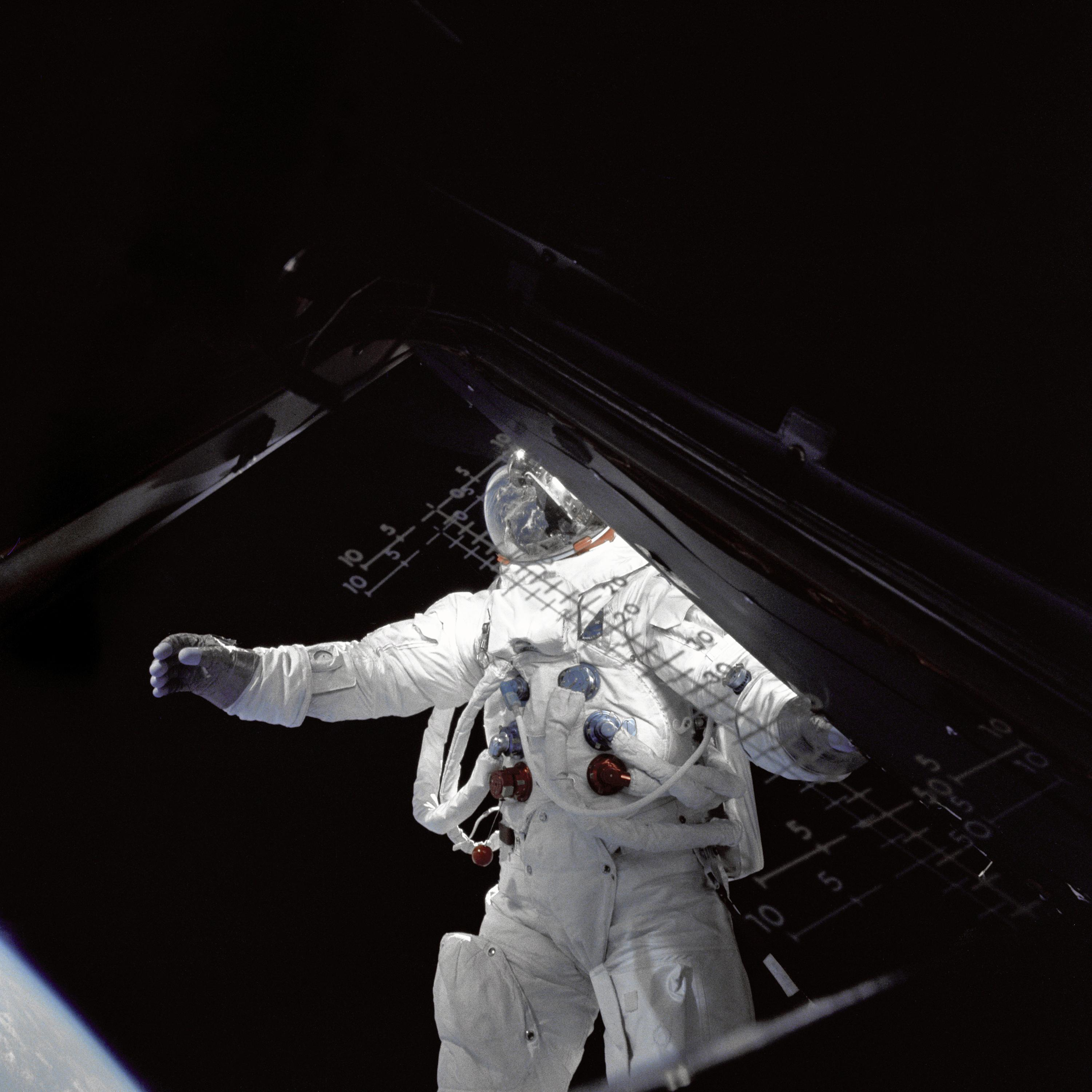 Astronaut Russell L. Schweickart, Lunar Module pilot, stands in "golden slippers" on the Lunar Module "Spider's" porch during his extravehicular activity on the fourth day of the Apollo 9 earth-orbital mission. This photograph was taken from inside the Lunar Module "Spider" by mission commander James McDivitt. The Command/Service Module and Lunar Module were docked. Schweickart is wearing a Portable Life Support System (PLSS).